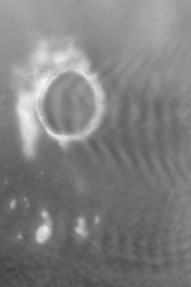 10 June 2004 This red wide angle Mars Global Surveyor (MGS) Mars Orbiter Camera (MOC) image, acquired in March 2004, shows Kunowsky Crater ringed by seasonal frost. Kunowsky is about 67 km (~42 mi) in diameter. Wavy clouds form to the east (right) of the crater in early spring as winds circulate from west to east. The crater is located at 57.1°N, 9.7°W. The picture is illuminated by sunlight from the lower left.